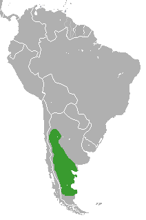 Dolichotis patagonum range map Source